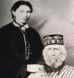 Italian condottiere Giuseppe Garibaldi with his last wife Francesca Armosino